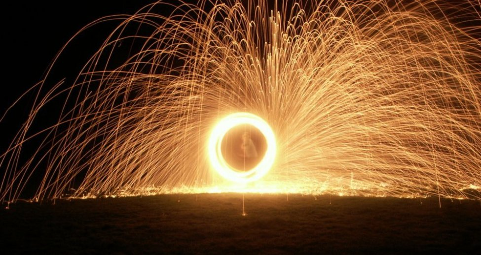 Spinning lit wirewool inside chickenwire cages on the end of chains.